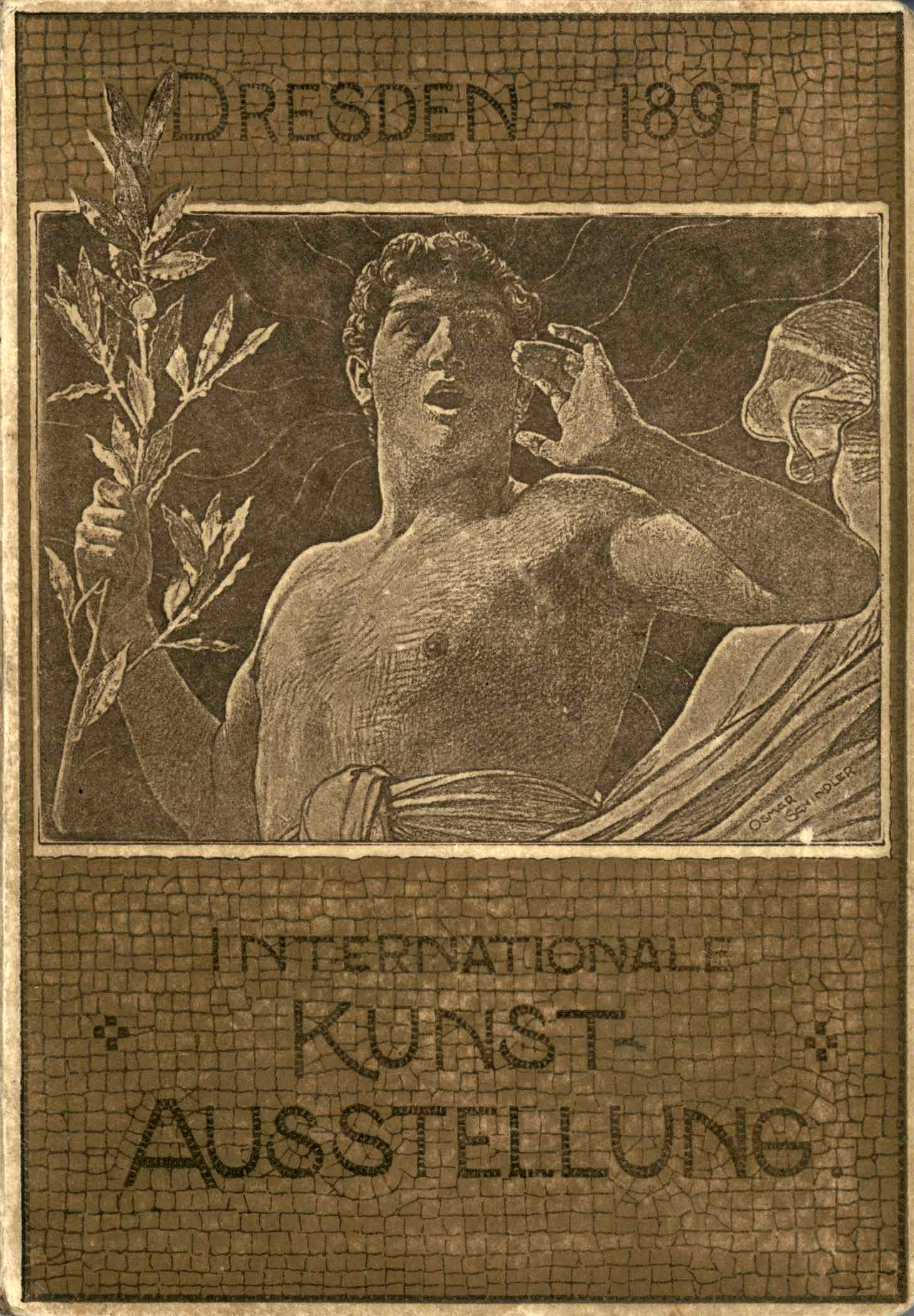 Art exhibition of Dresden 1897, catalogue, printed Alwin Arnold